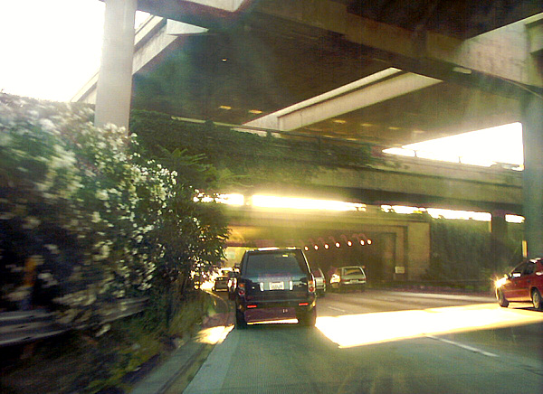 The Santa Monica Freeway (Interstate 10) eastbound at the Harbor Freeway (Interstate 110) interchange on July 14, 2004